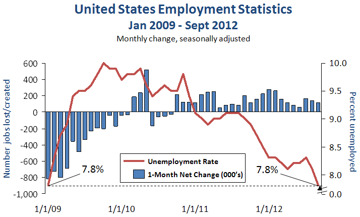 Employment statistics in the United States (plot of monthly data for Unemployment Rate and 1-Month Net Change) from January 2009 to September 2012; i.e., employment stats under Obama Administration Data sources: Bureau of Labor Statistics, Unemployment Rate, Bureau of Labor Statistics, 1-Month Net Change